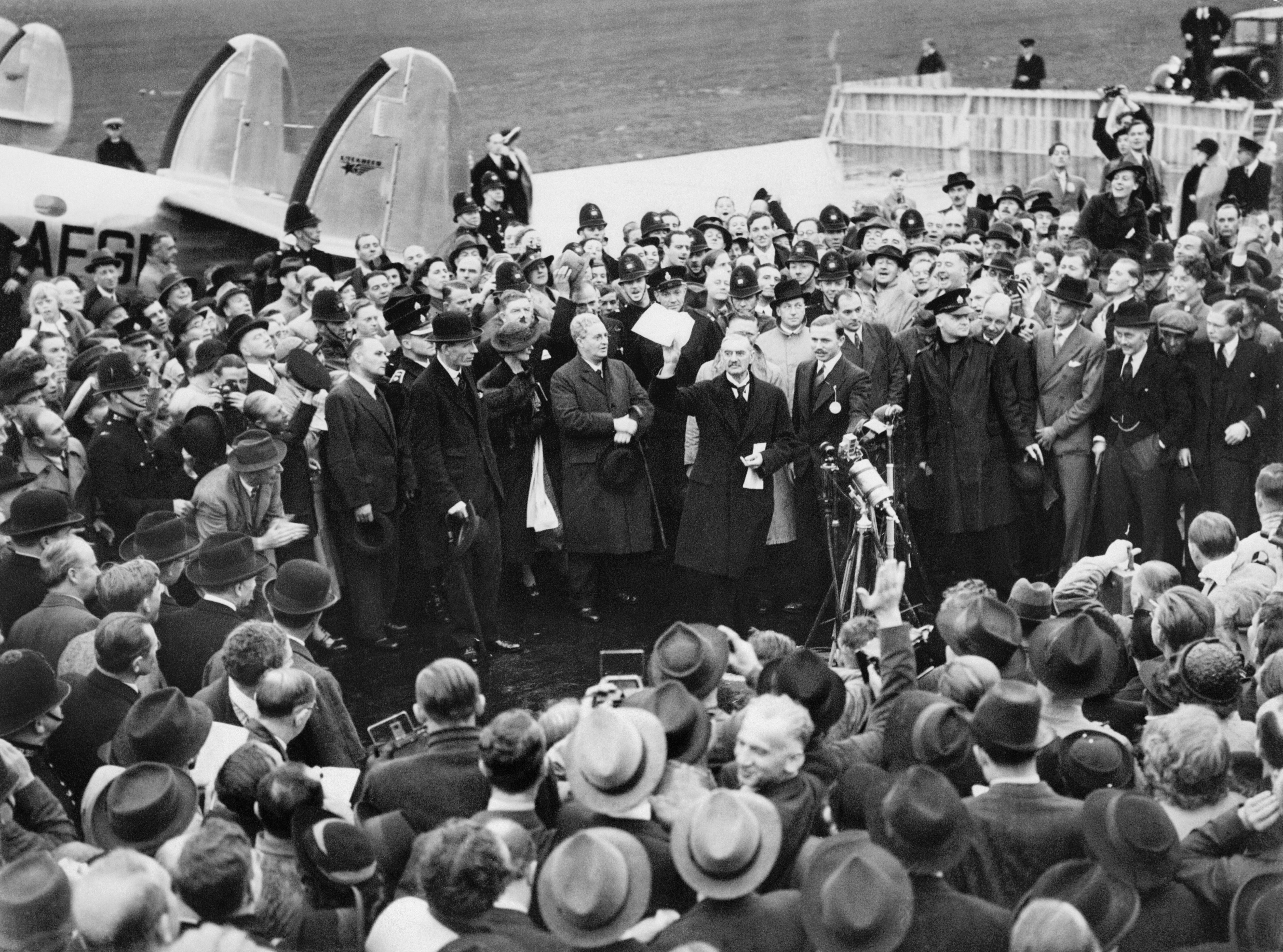 Neville Chamberlain holding the paper containing the resolution to commit to peaceful methods signed by both Hitler and himself on his return from Munich. He is showing the piece of paper to a crowd at Heston Aerodrome on 30 September 1938. He said:"...the settlement of the Czechoslovakian problem, which has now been achieved is, in my view, only the prelude to a larger settlement in which all Europe may find peace. This morning I had another talk with the German Chancellor, Herr Hitler, and here is the paper which bears his name upon it as well as mine (waves paper to the crowd - receiving loud cheers and "Hear Hears"). Some of you, perhaps, have already heard what it contains but I would just like to read it to you ...". Later that day he stood outside Number 10 Downing Street and again read from the document and concluded:'"My good friends, for the second time in our history, a British Prime Minister has returned from Germany bringing peace with honour. I believe it is peace for our time."